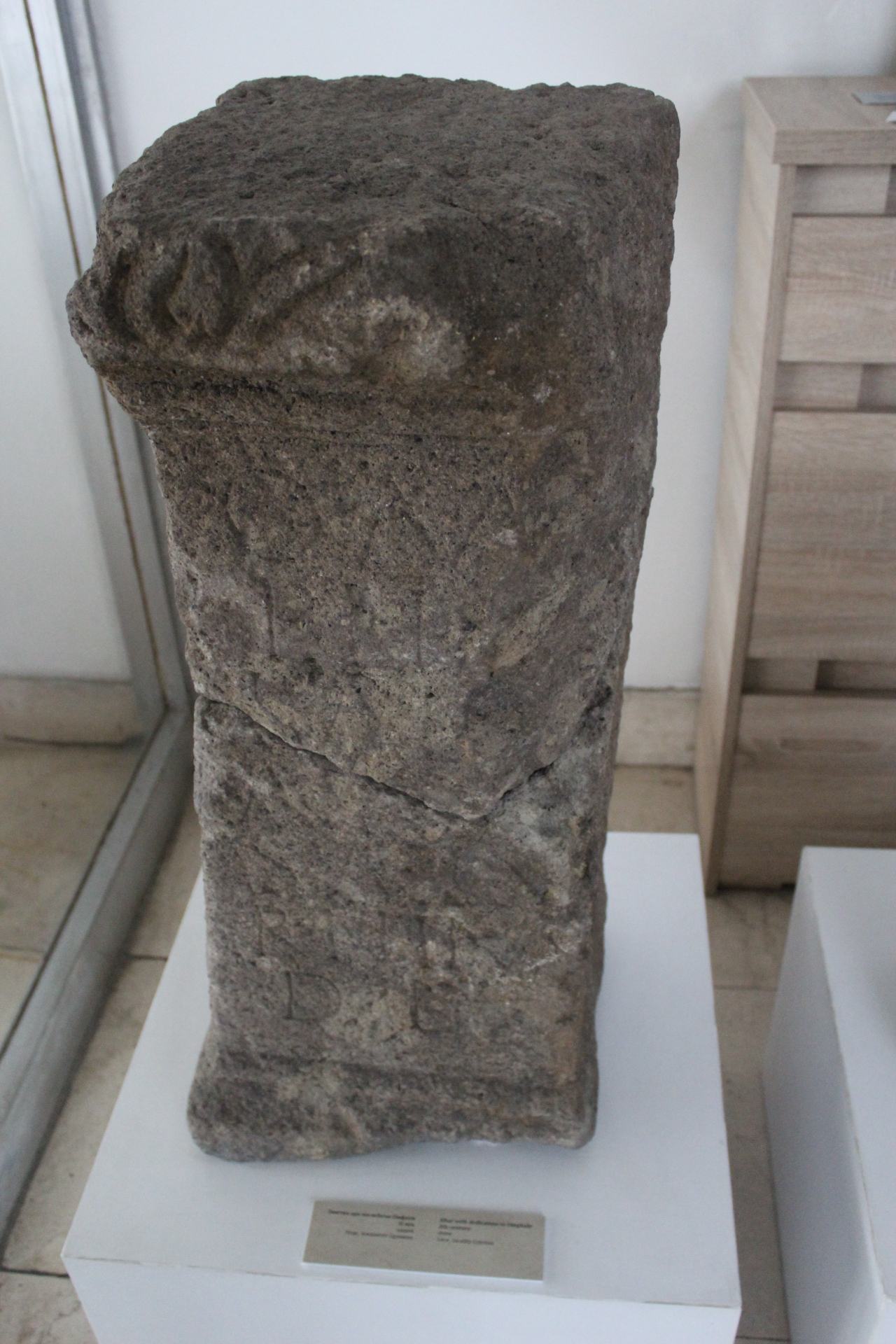 Altar with dedication to Omphale, 2th century. Stone. Lece, locality Crkvina. Srpski (latinica): Zavetna ara posvećena Omfali, II vek. Kamen. Lece, lokalitet Crkvina.